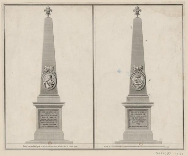 Here Henri IV of France rested under a pear tree after he won the battle of Ivry on the 14th March 1590, the obelisk was built for Louis Jean Marie de Bourbon duc de Penthievre in 1777 by his architect Martin Goupy